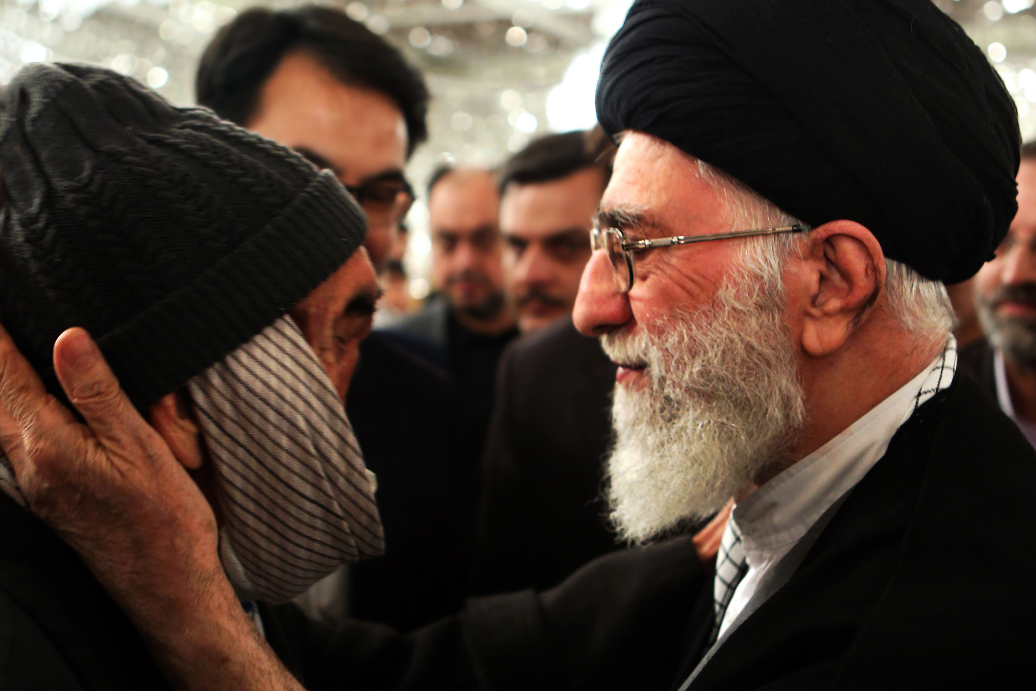 Ayatollah Sayyed Ali Khamenei visiting Iran-Iraq War veteran Rajab Mohammadzade in Imam Reza Shrine